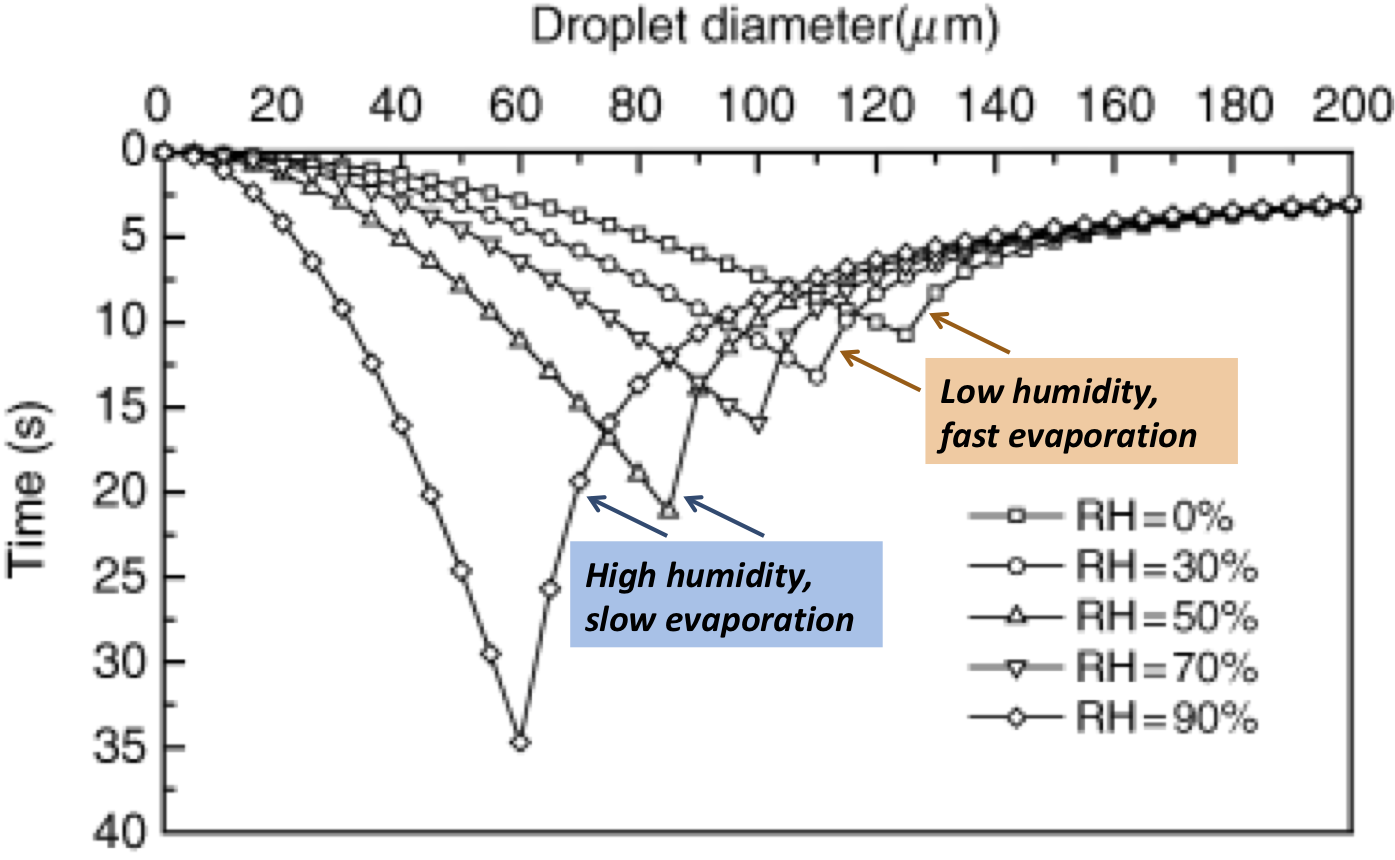 This graph shows a series of 'Wells curves' showing, for air with different levels of water vapor, how long respiratory droplets take to either fall 2 meters (right-hand half-curves) or evaporate to dryness (left-hand half curves). It is used to help predict the spread of infectious respiratory diseases.